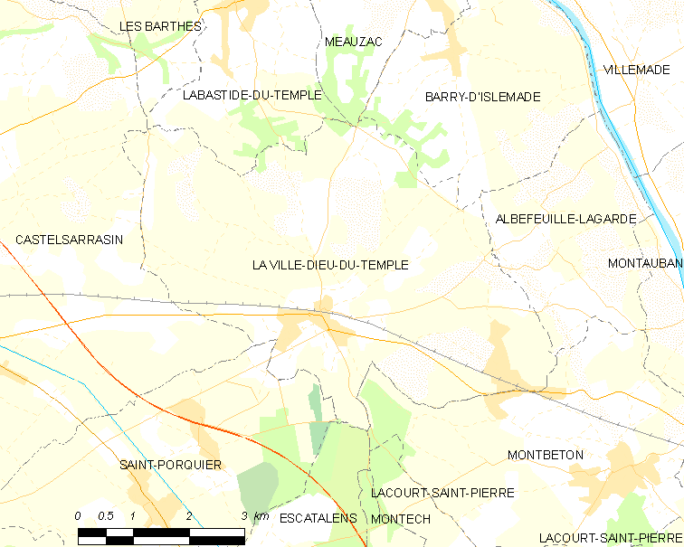 Map of French municipality La Ville-Dieu-du-Temple